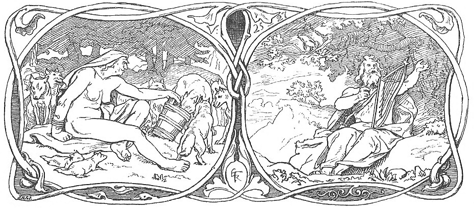 An old woman raises wolves in the wood Járnviðr (left) and the herdsman Eggthér happily plays his harp while the rooster Fjalar crows at the onset of Ragnarök as attested in Völuspá. Image appears as an illustration for Völuspá. No caption or title given in work.